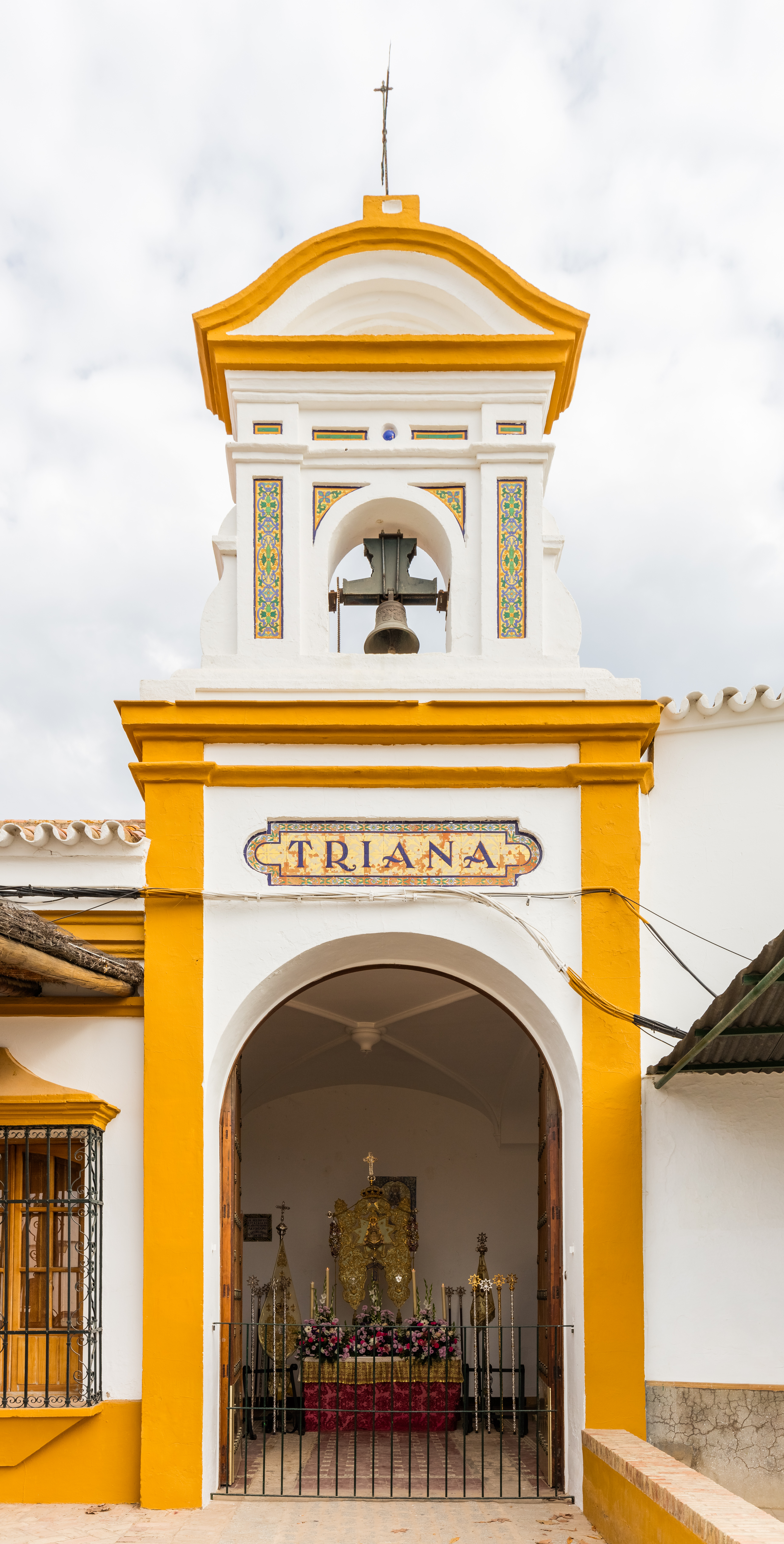 Hermandad de Triana, El Rocío, Huelva, Spain